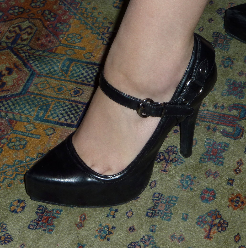 A woman wearing black pump shoes made of artificial leather, revealing her toe cleavage.